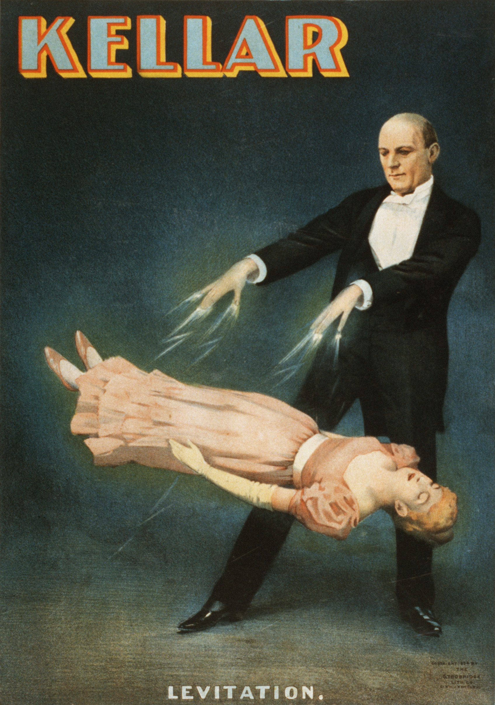 Yet another promotional poster for American magician (Harry) Kellar. This time the levitating lady levitates in the other direction, showing off the maestro's versatility. "Levitation" promotional poster for Kellar by the Strobridge Lithographic Co., Cincinnati, New York, ca. 1894. From the Performing Arts Poster Collection at the Library of Congress More magician posters | More performing arts posters [PD] This picture is in the public domain